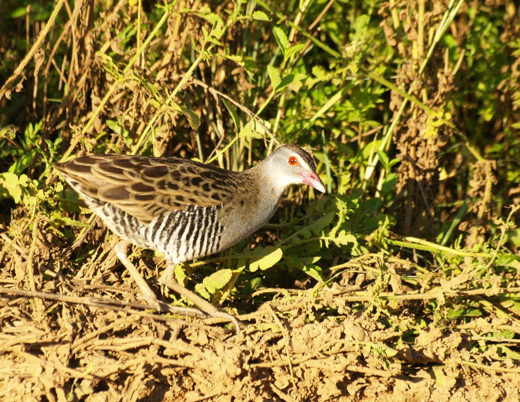 African Crake photographed on the Zaagkuildrift Road 2 hours north of Johannesburg in South Africa.